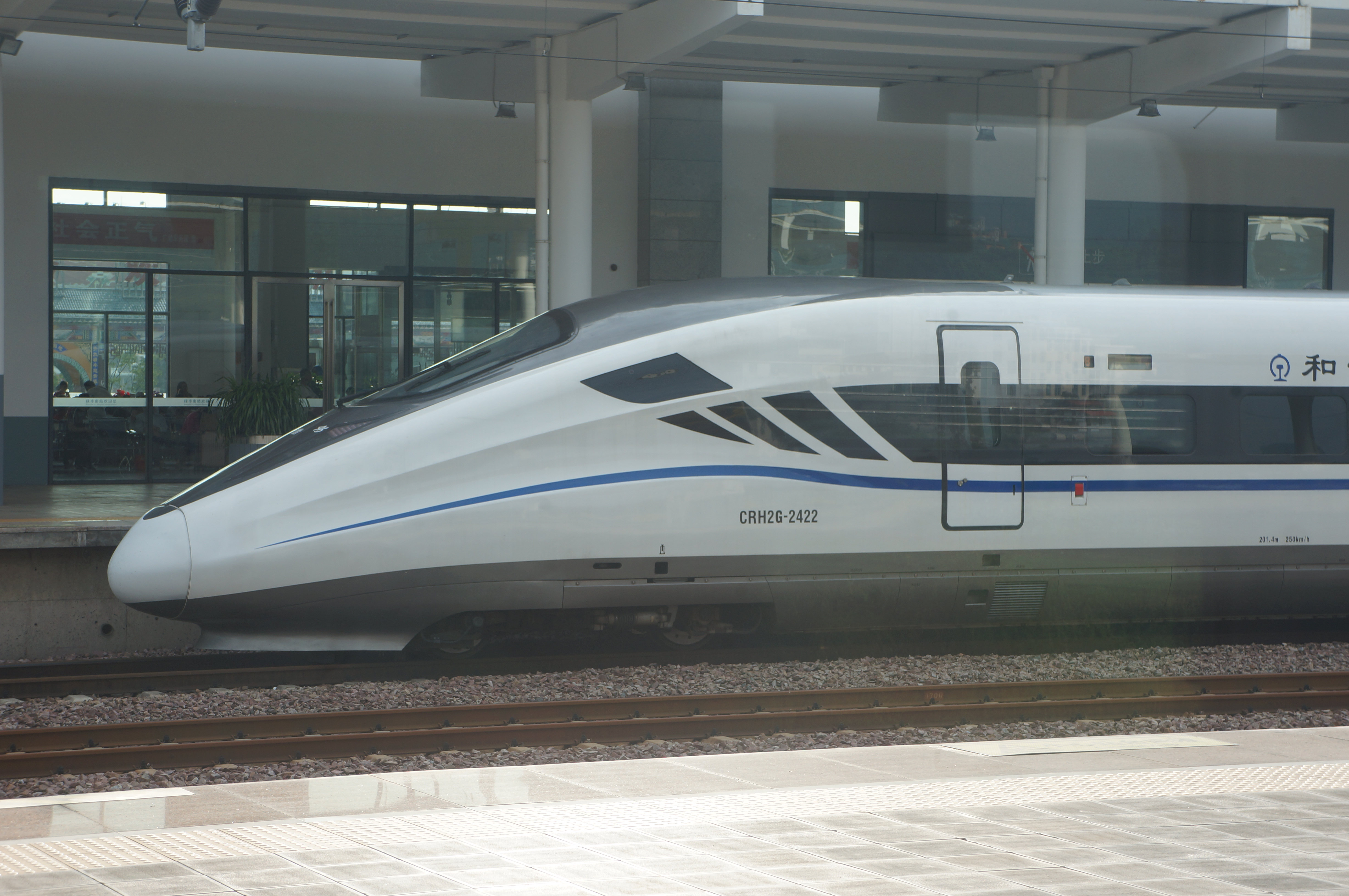 D8631 from Chuxiong to Kunmingnan